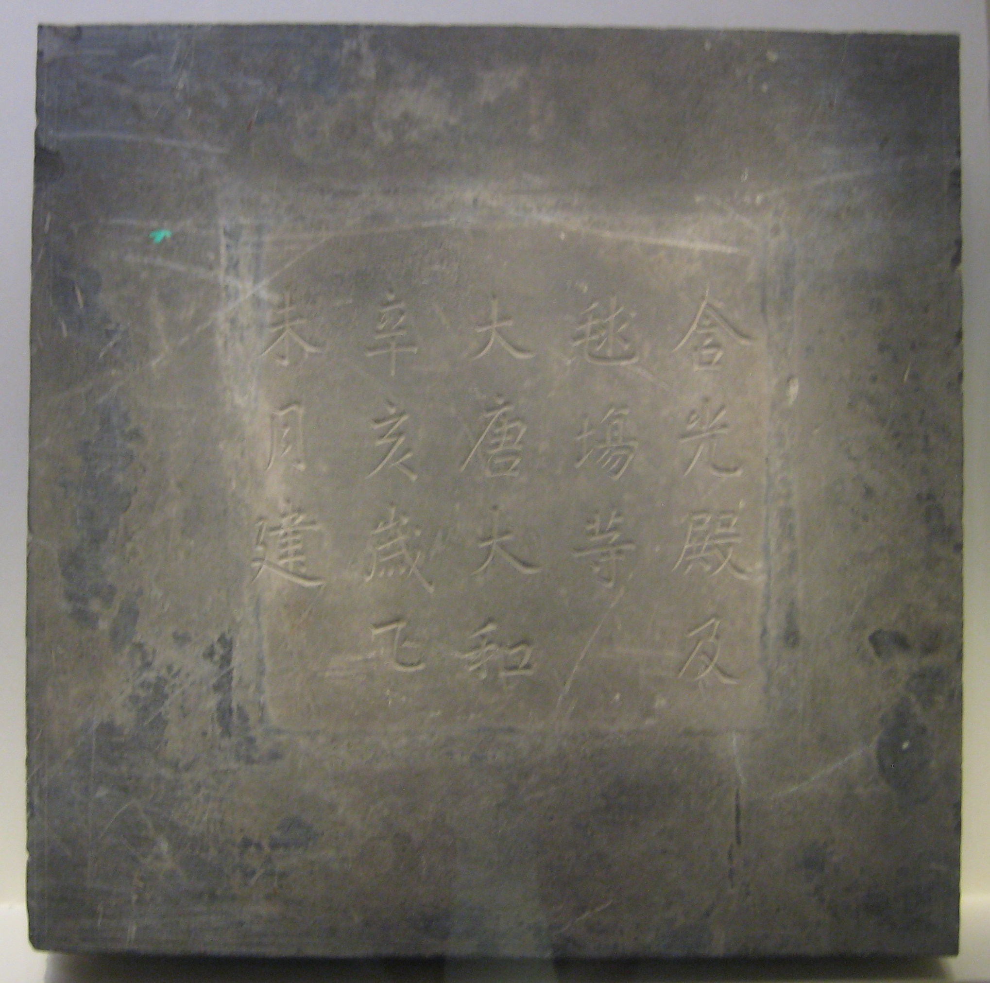 Stone inscription commemorating the building of the Hall of Containing Light (Hanhuang Dian 含光殿) and a polo field in the year 831 (Dahe 5). Unearthed at the site of the Great Bright Palace (Daming Gong 大明宫) at Xi'an, Shaanxi Province, 1956.